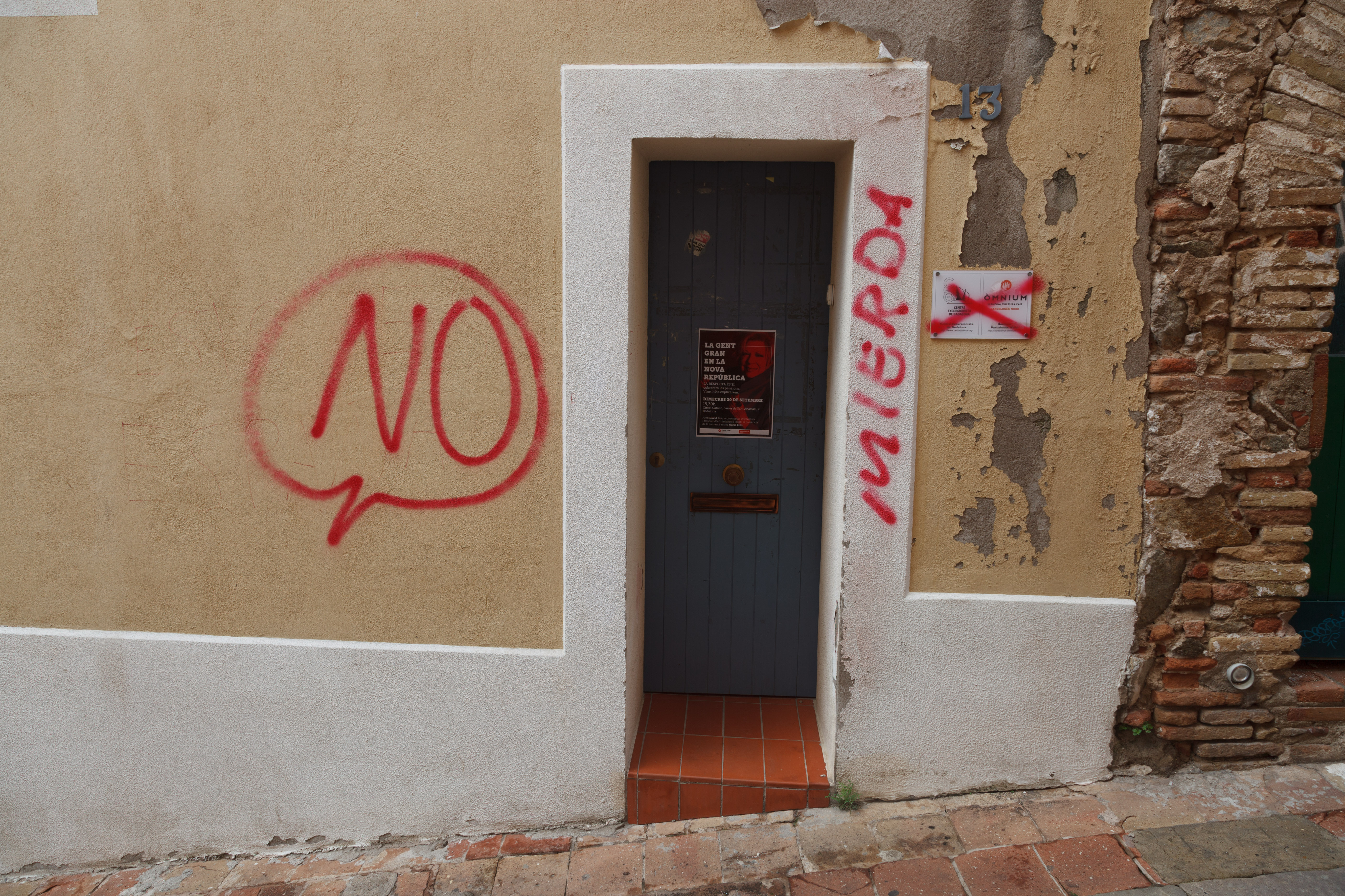 Graffiti against the 2017 Catalan independence referendum in Badalona (Barcelona province, Catalonia, Spain).